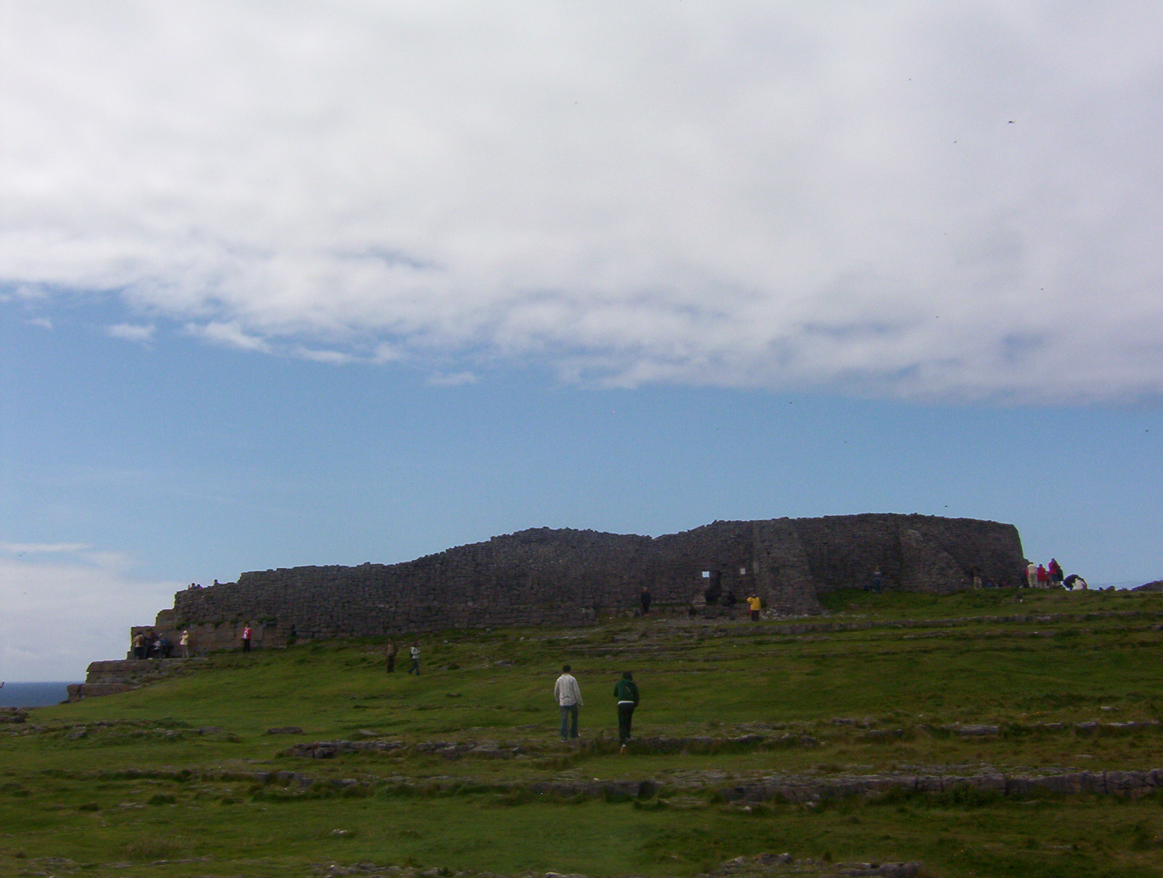 View of the Iron Age fortress Dún Aengus on Inishmore